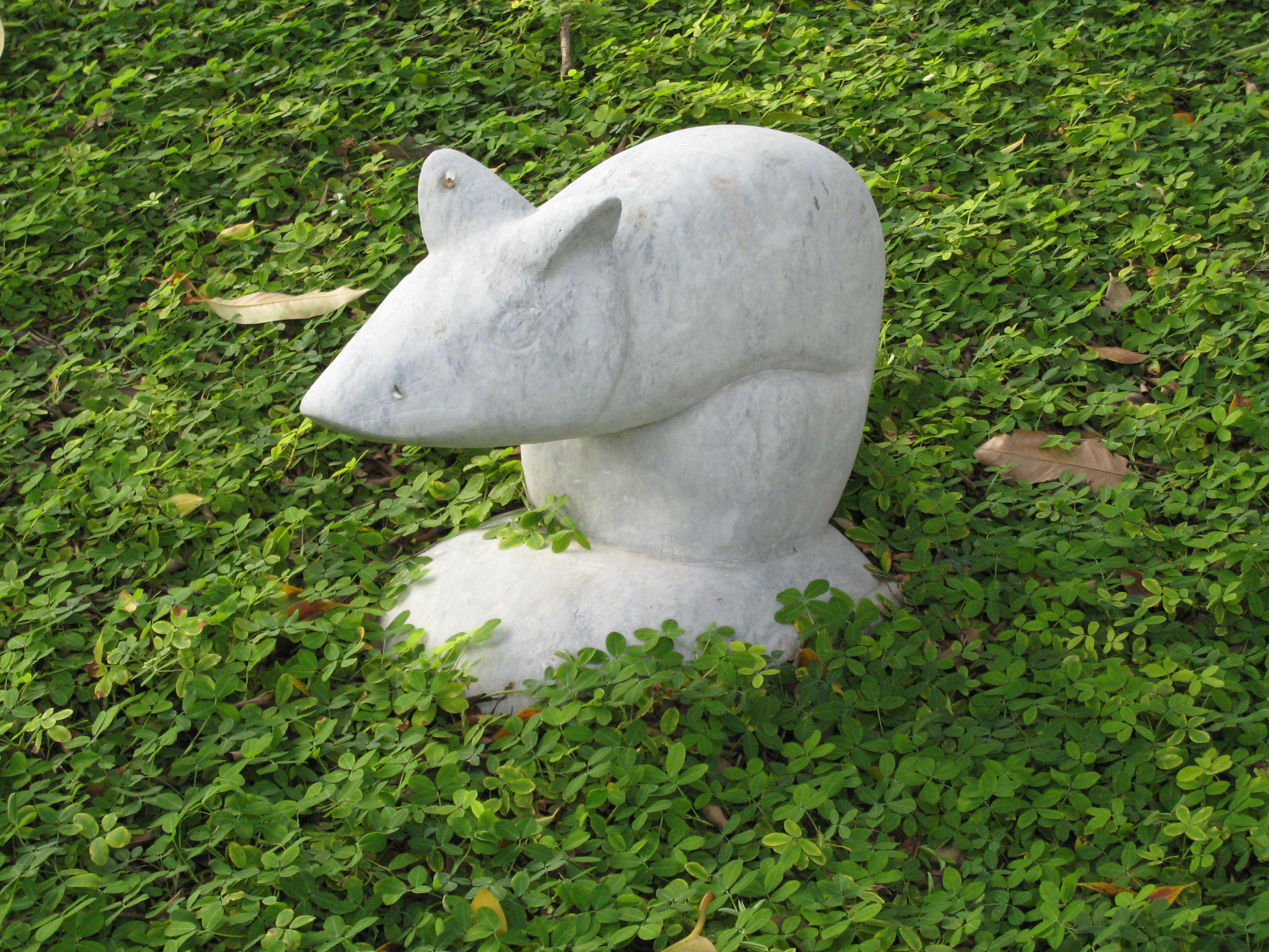 The Rat statue is one of the 12 Chinese zodiac portrayed in the Kowloon Walled City Park in Kowloon City, Hong Kong.